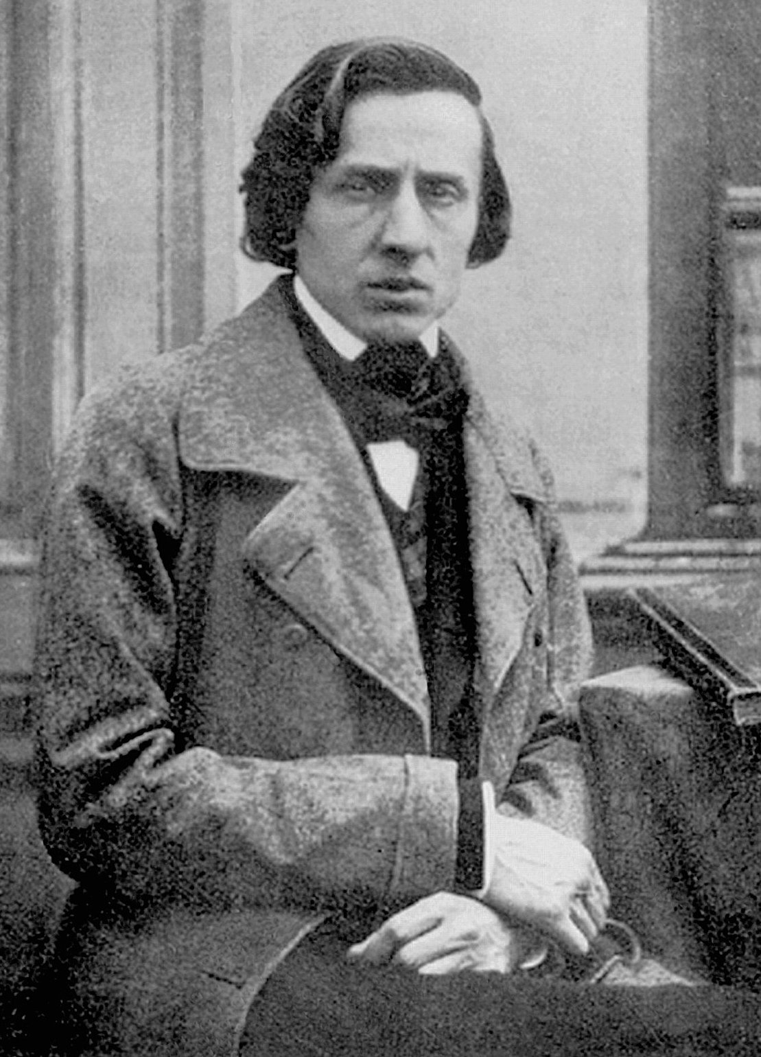 Portrait of Frédéric Chopin (1810-1849)